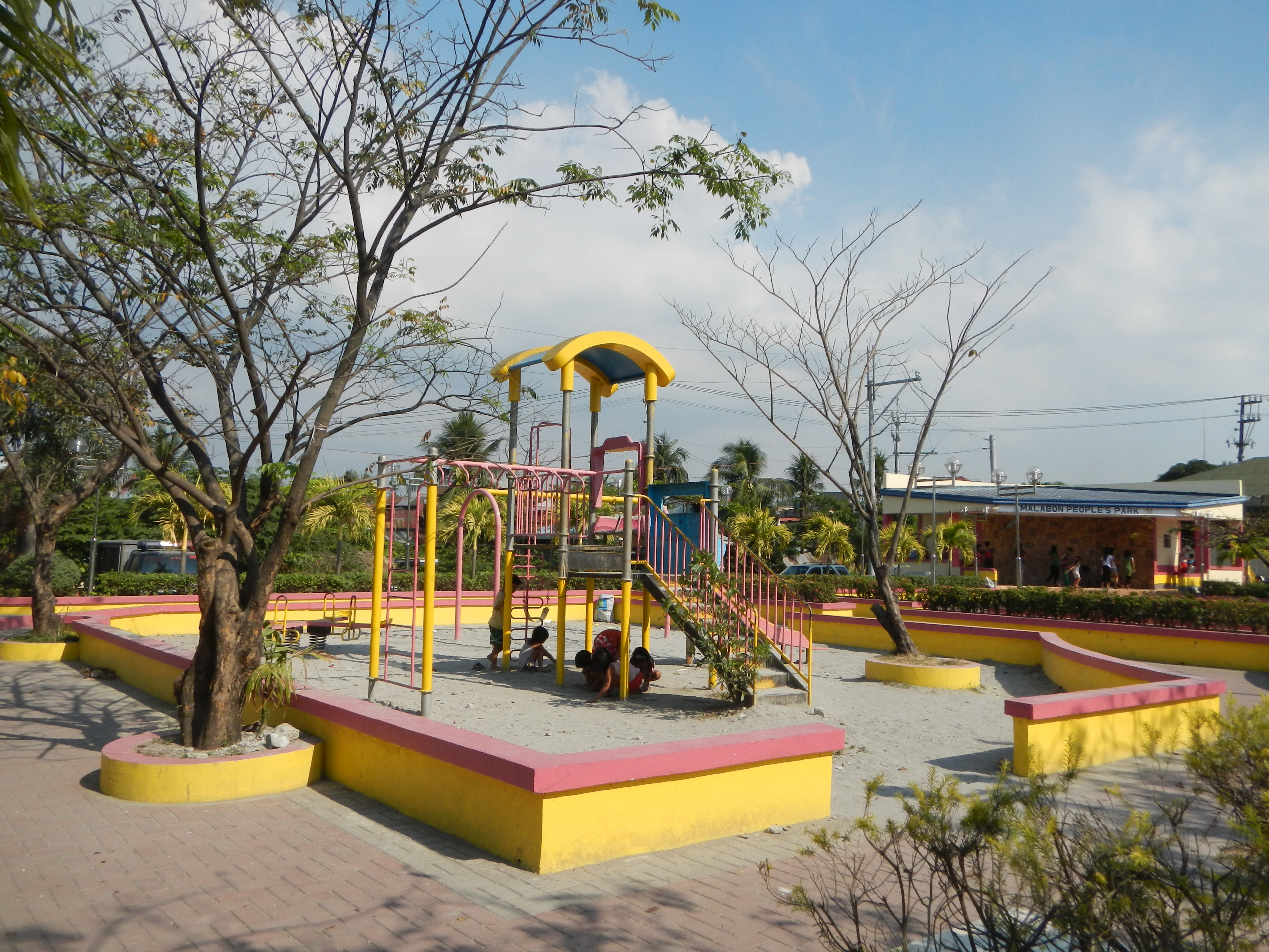 Malabon People's Park, List of parks in Manila Sanciangco St., Barangay Catmon, Malabon City